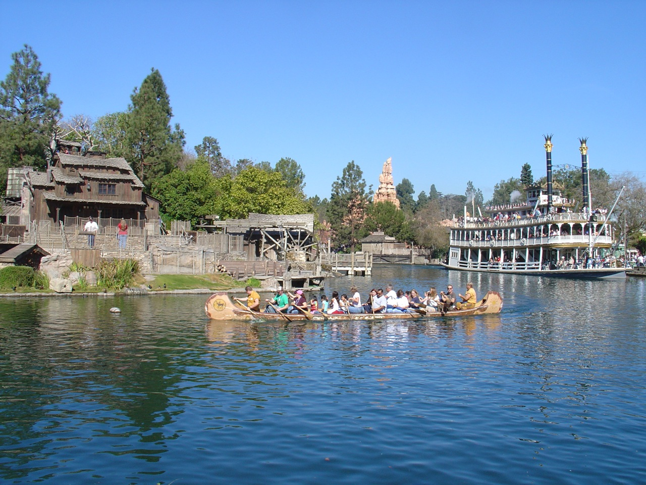 Showing Tom Sawyer Island, Mark Twain Riverboat, Davy Crockett's Explorer Canoes and Big Thunder Mountain